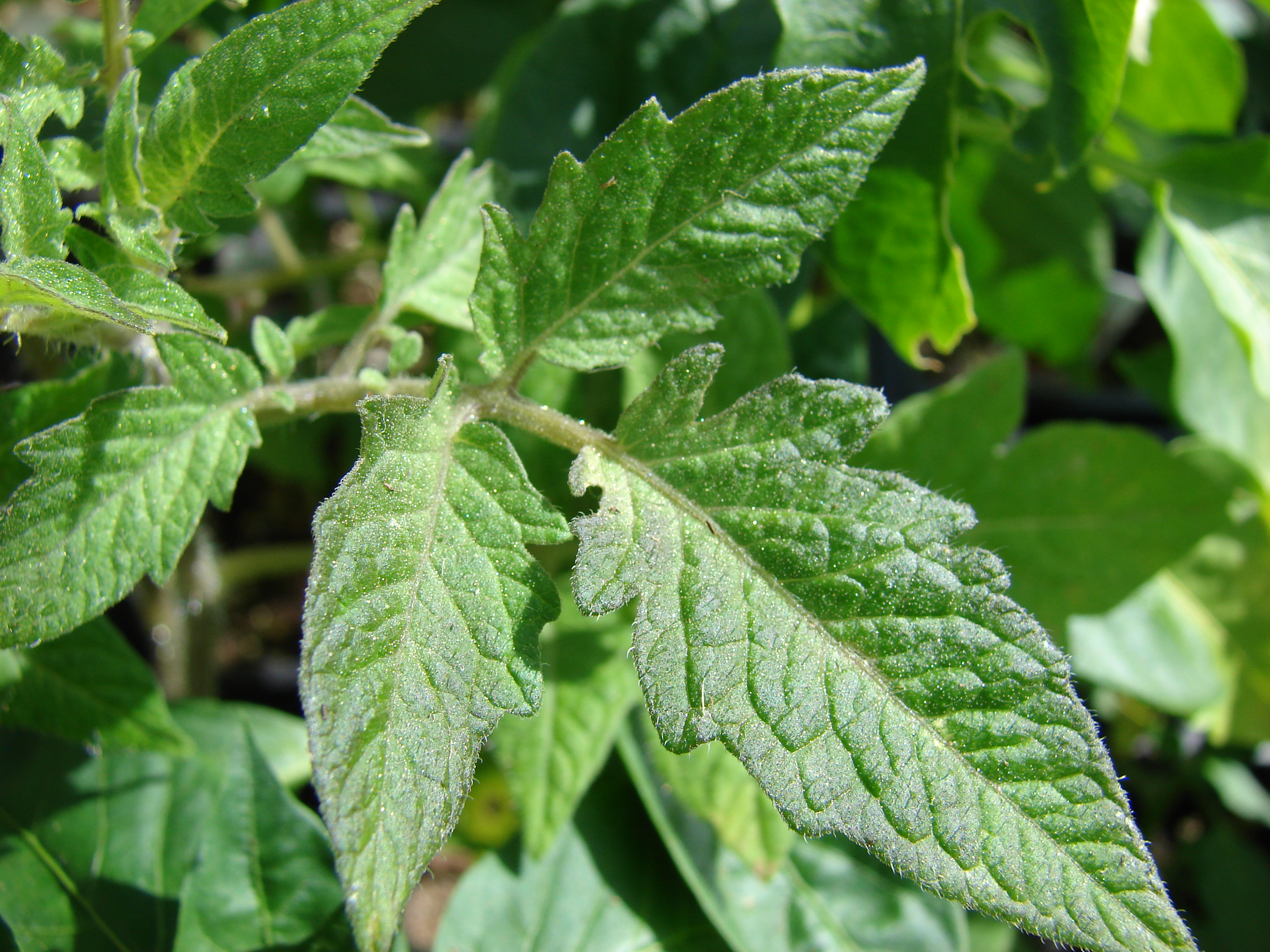 Solanum lycopersicum var. lycopersicum (leaves). Location: Maui, Home Depot Nursery Kahului